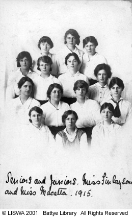 Students of the Kindergarten Training College in Perth, Western Australia, 1915. Back row (L to R): Margaret Graham, Hazel Orme, Dorothy Bradshaw. Third row (L to R): Muriel Joyner, Evelyn Clifton, Enid Wilson, Edith Kelsall. Second row (L to R): Mary Clifton, Mildred Mocatta, Constance Finlayson, Olga Leschen. Front row (L to R): Phyliis Moore, Athole Clifton, Gladys Crossland.